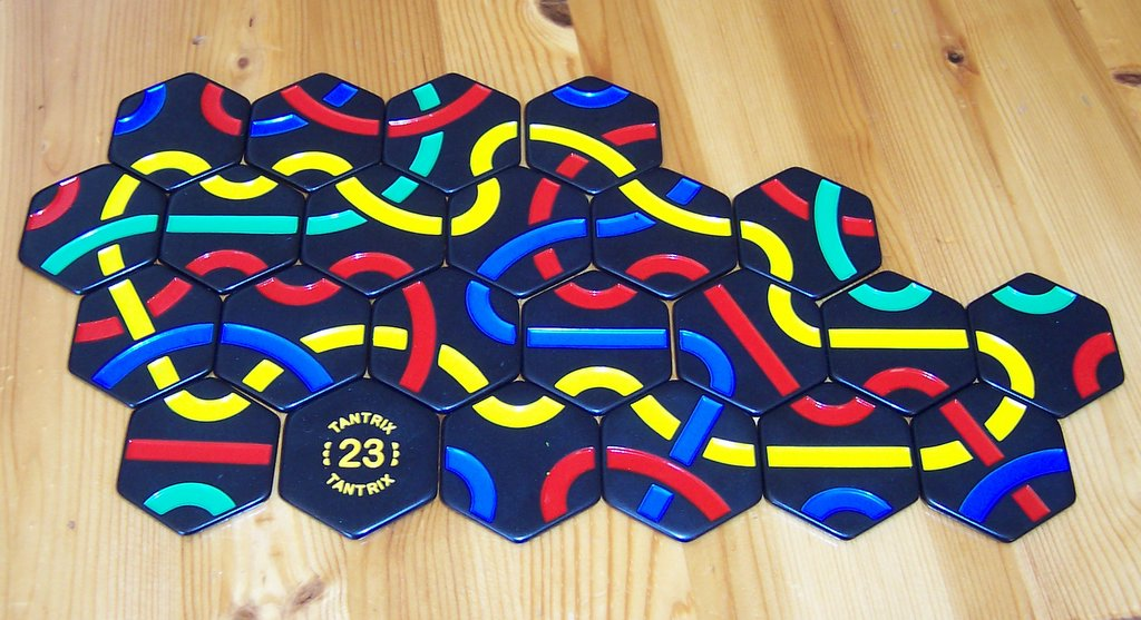 Completed tantrix puzzle with 22 pieces